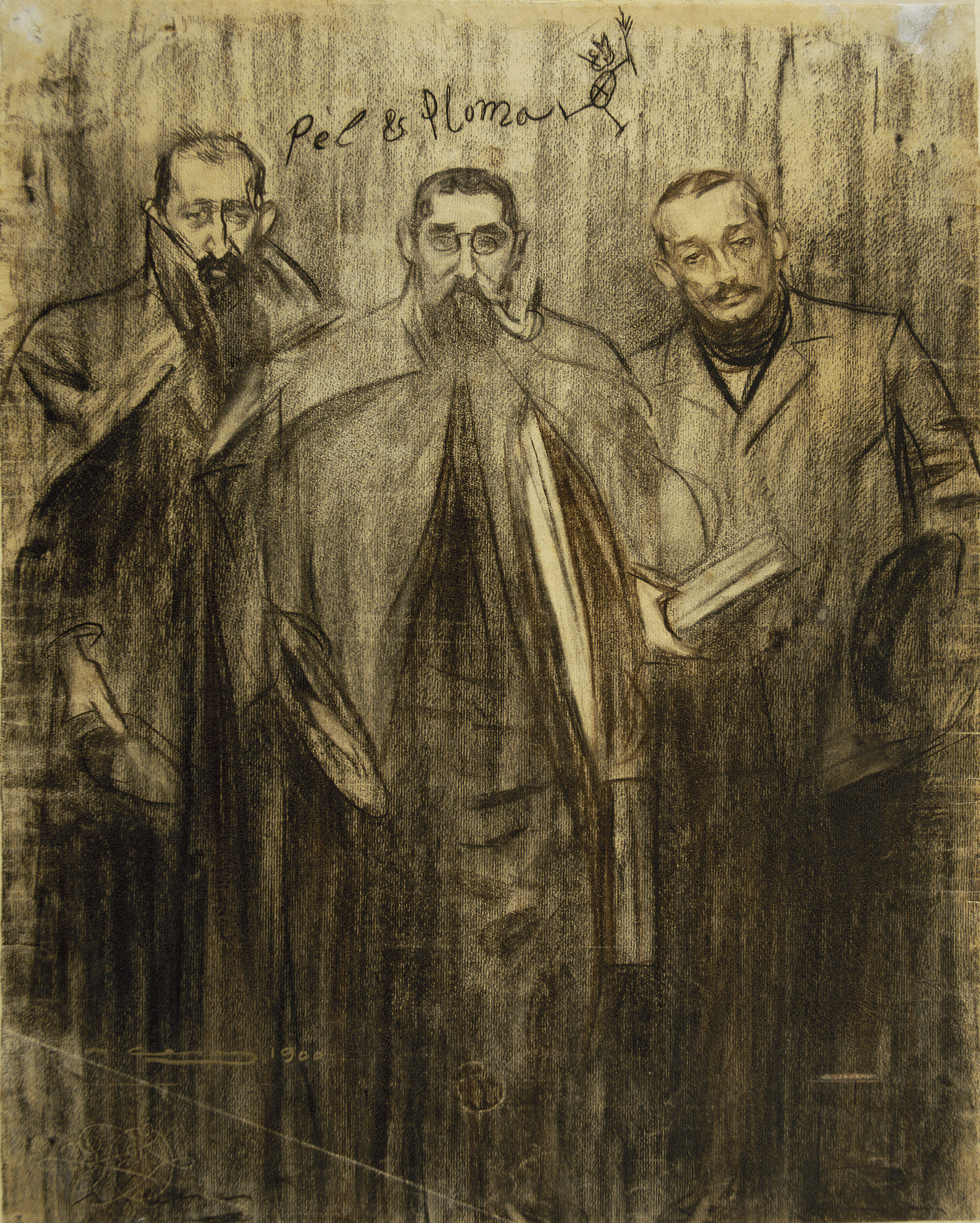 Portrait by Ramon Casas conserved at MNAC in Barcelona.